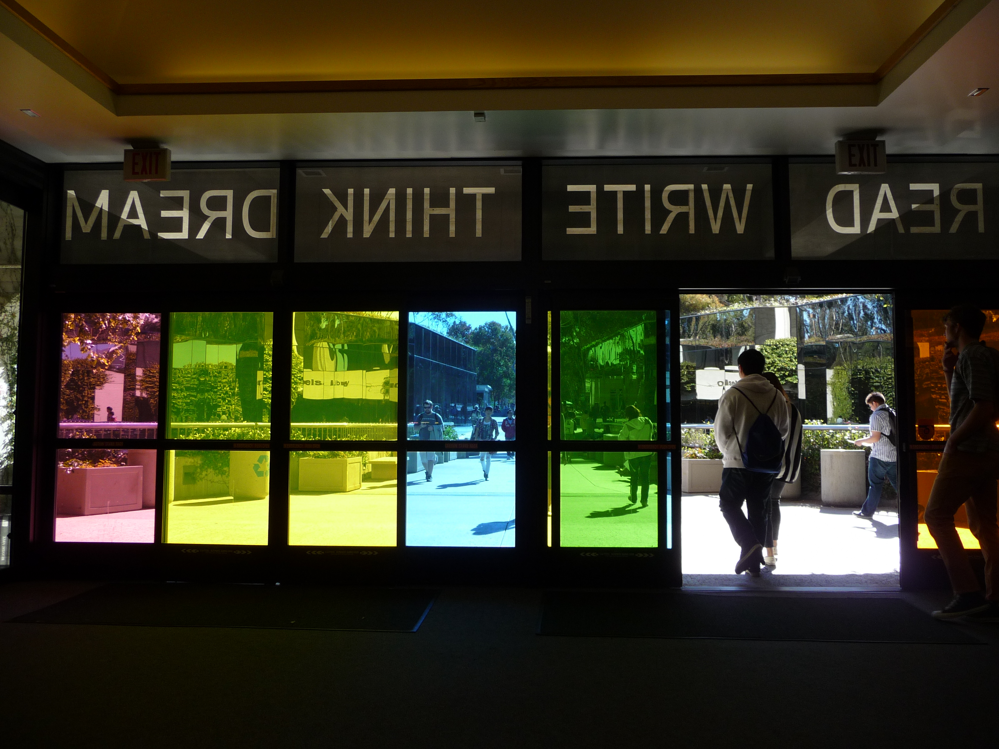 "READ/WRITE/THINK/DREAM" by John Baldessari in Geisel Library at UCSD. An outward-facing view.